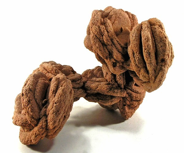 Baryte Locality: Lake Thunderbird area, Norman, Cleveland County, Oklahoma, USA (Locality at ) A large and striking cluster of barite "roses" from Oklahoma, with individual "blooms" measuring up to 4.5 cm! They are intergrown in a really pretty scuptural form. 11.9 x 8.2 x 7.7cm